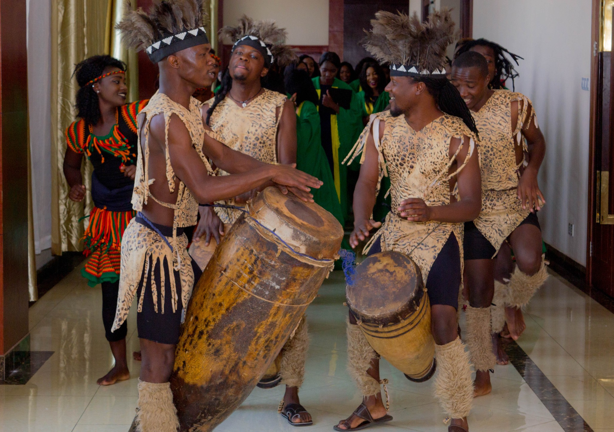 This is an image with the theme "Play" from: Zambia